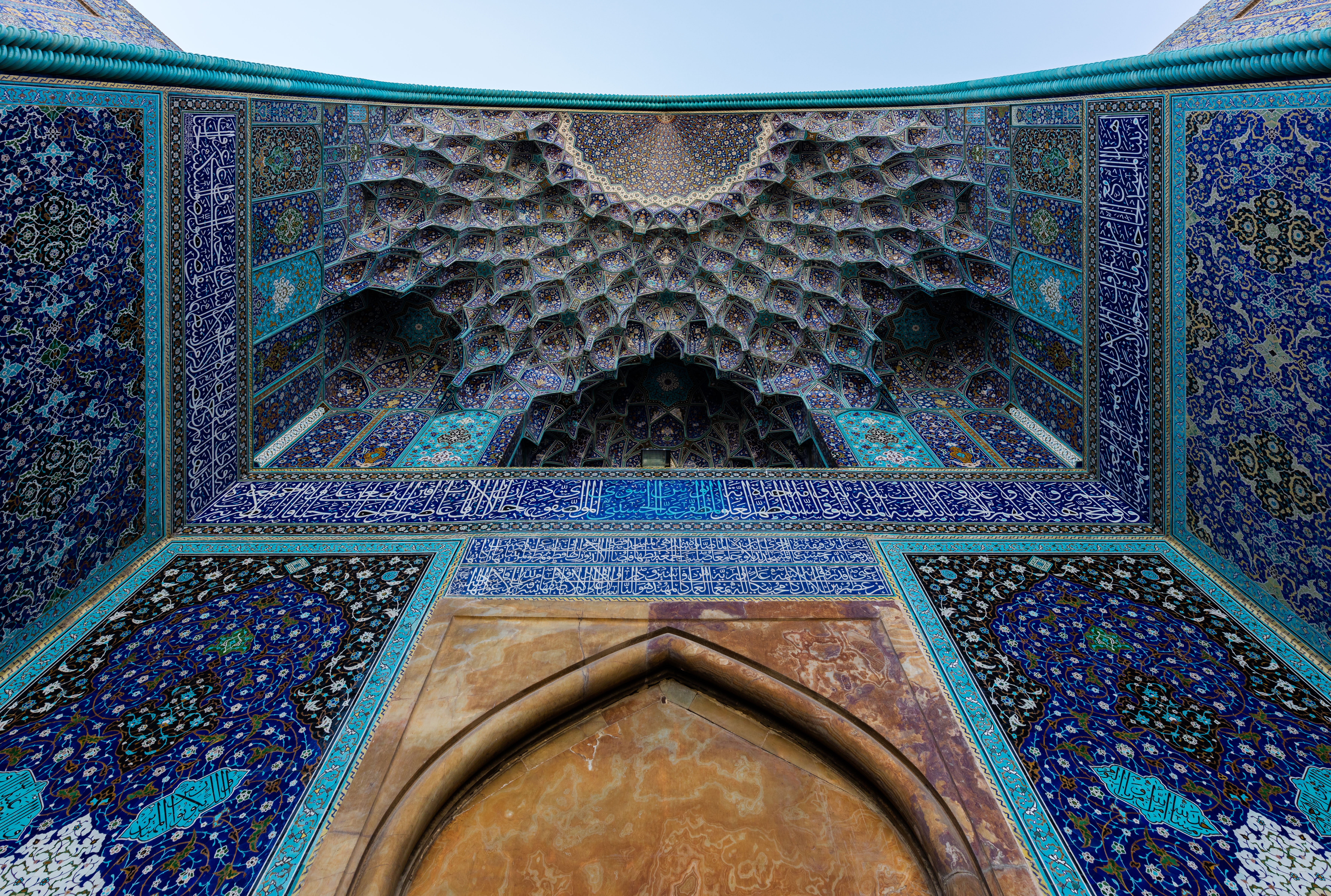 Bottom view of the iwan of the main entrance to the Shah Mosque, Isfahan, Iran. The mosque, a UNESCO World Heritage site started its construction in 1611, during the Safavid dynasty per order of Abbas I of Persia. It's considered one of the masterpieces of Persian architecture in the Islamic era.